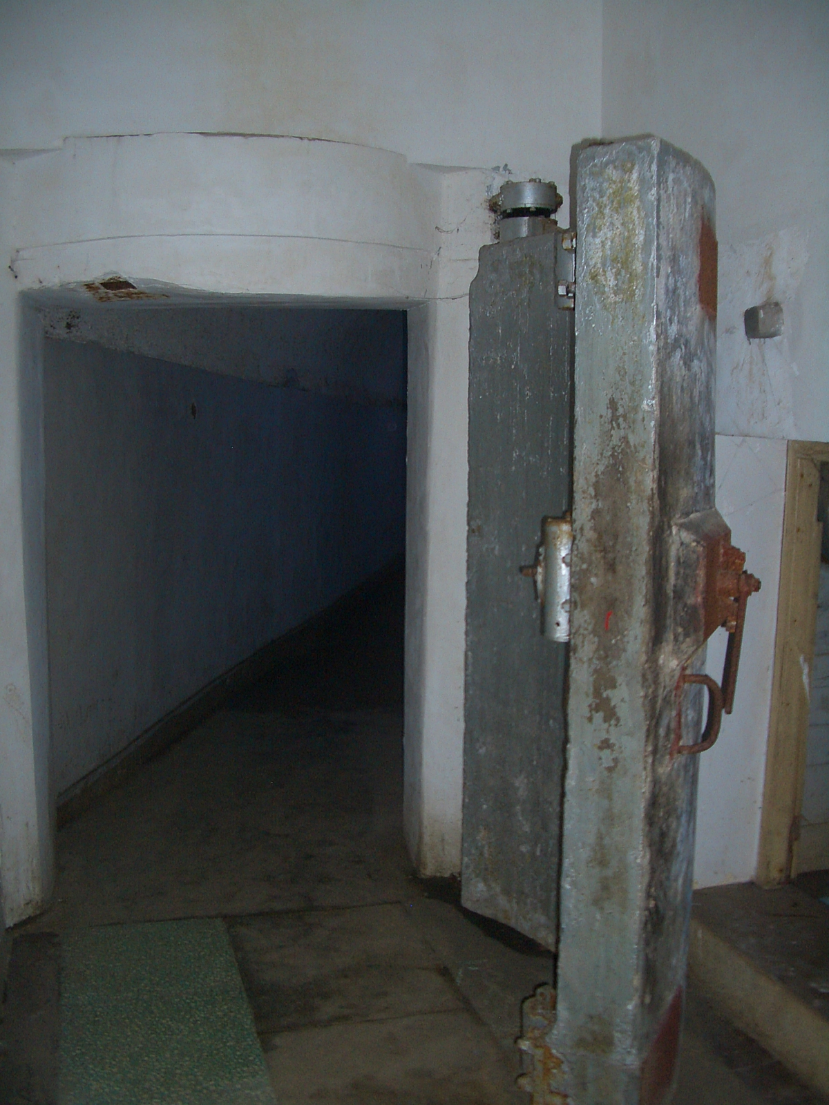 A tunnel door in Project 131 system)